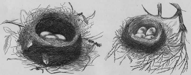 "Prosthemadera nova zealandice. Anthorniz melanura". Tui (Prosthemadera novaeseelandiae) and Bellbird (Anthornis melanura) nests.